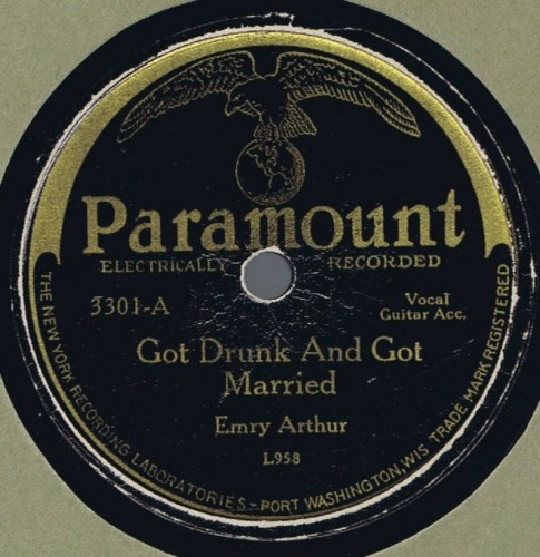 Got Drunk and Got Married by Emry Arthur, Paramount early 1930s.